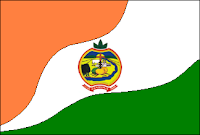 Flags of the city of Harmonia, Rio Grande do Sul, Brazil.